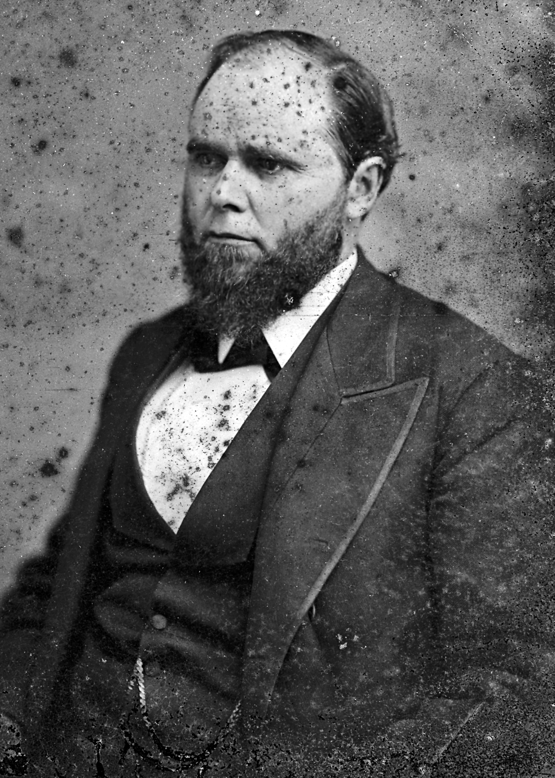 John M. Davy, US Representative from New York